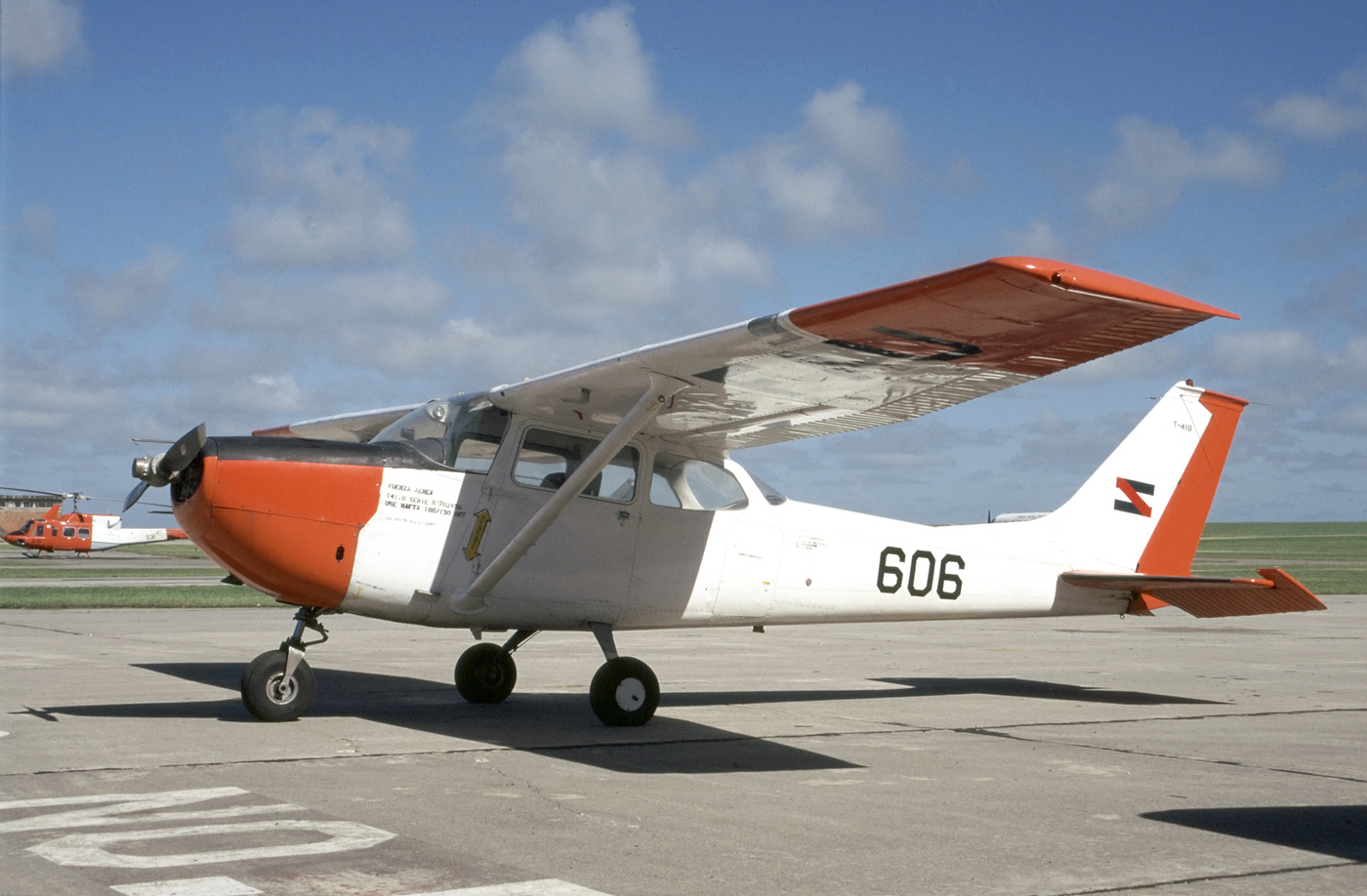 Some of these Cessna's should still be in service today. This one, 606, was seen visiting Montevideo-Carrasco international airport in November 1996. All trainers were based at nearby Pando then.